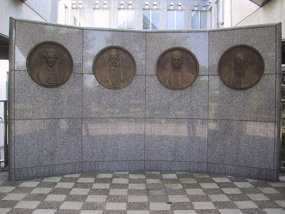 Toyo University Asaka Campus "Yonnsei"'s Monument(東洋大学朝霞キャンパス四聖像レリーフ)